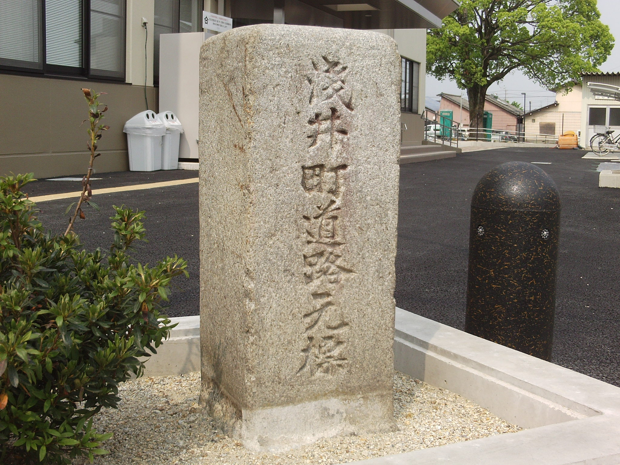 Kilometre zero of Azai town. (Azai town, Haguri-gun, Aichi.)